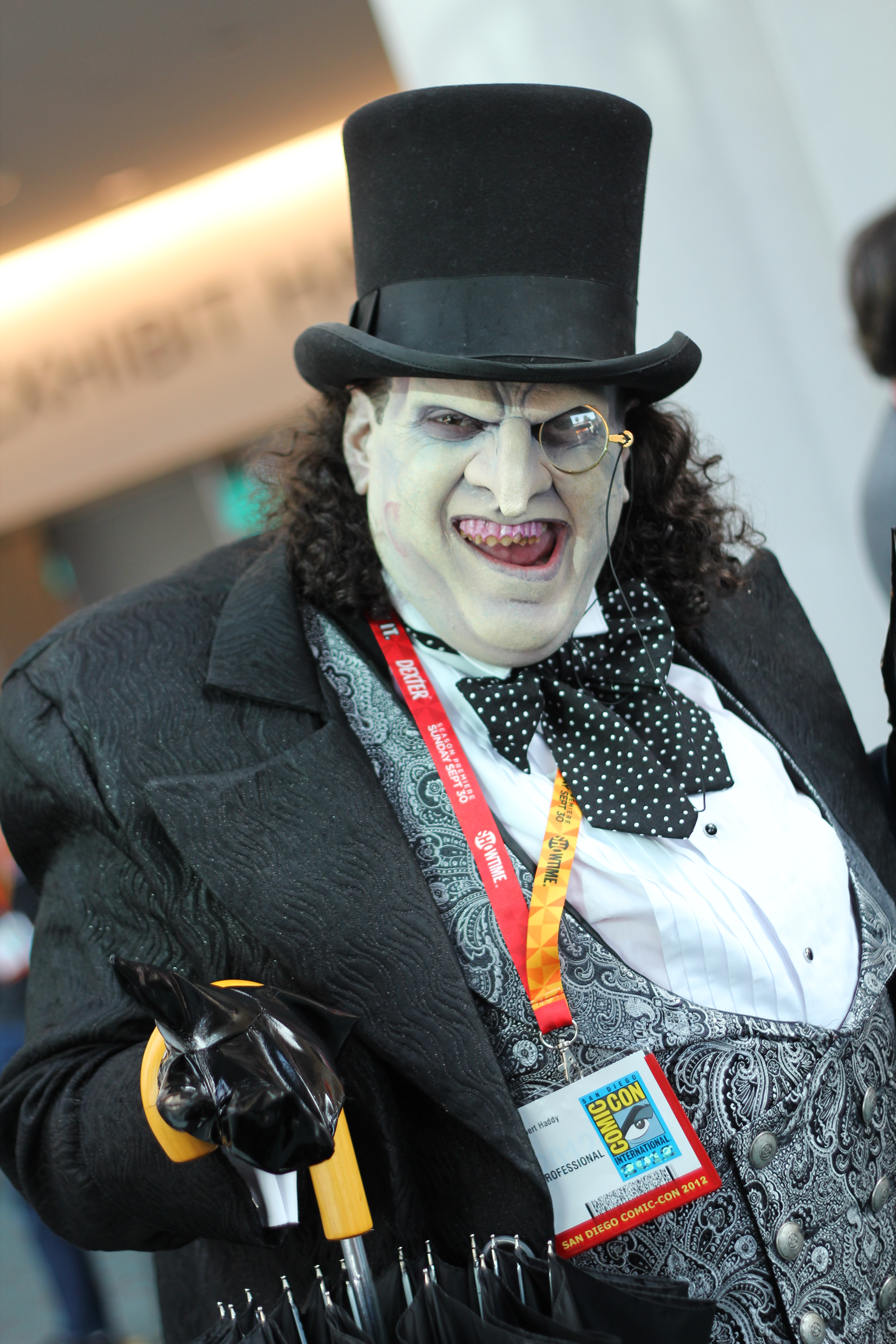 Cosplay at San Diego Comic-Con (SDCC 2012).